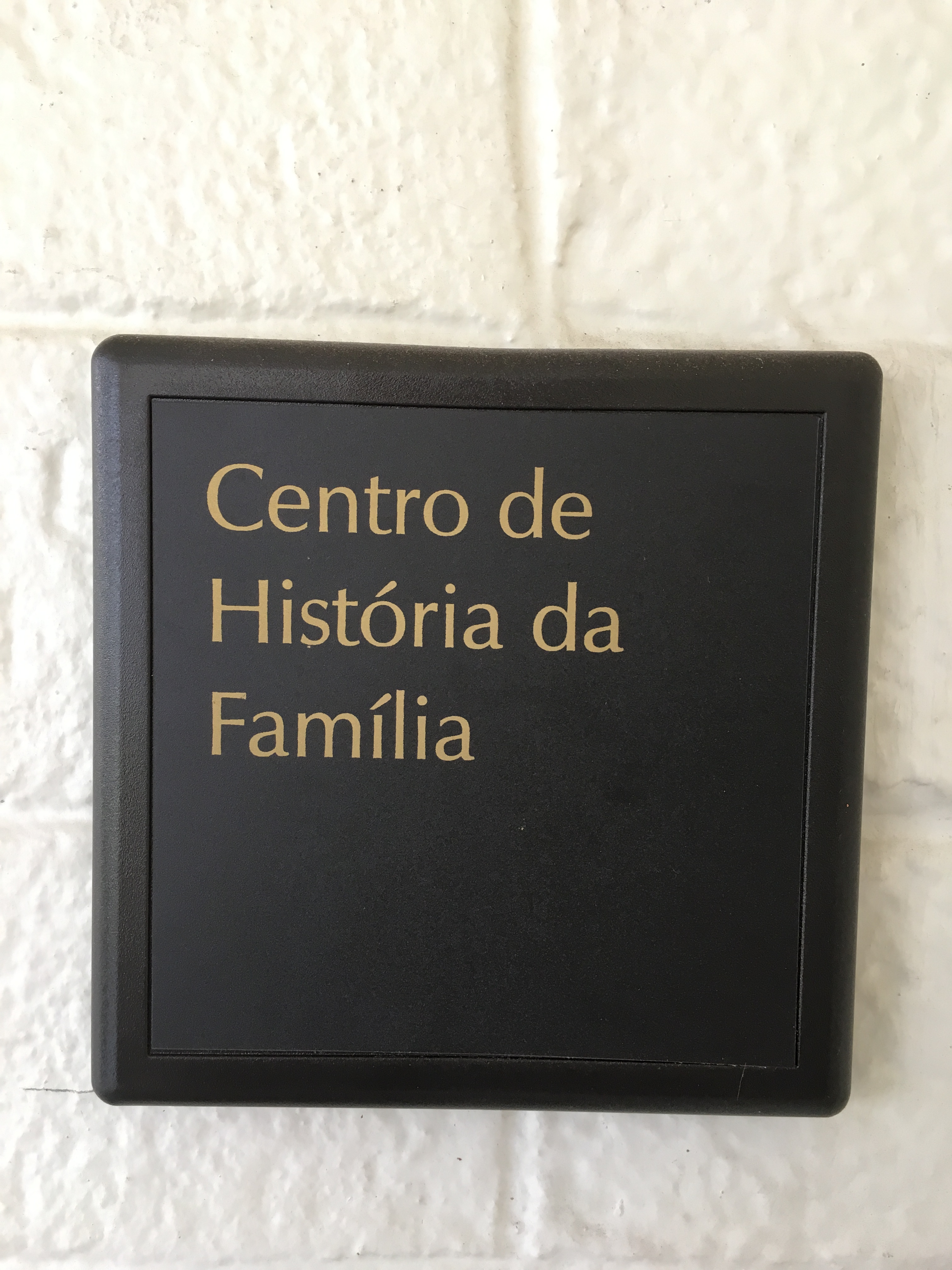 Identification sign of the São Paulo LDS Temple Family History Center